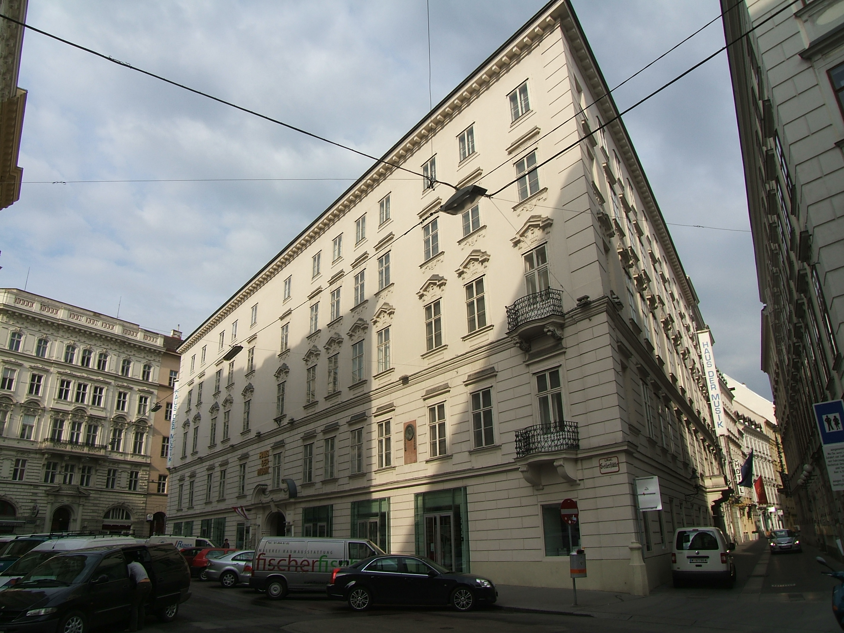 Palais of the Archduke Charles in Vienna's 1st district at Seilerstätte 30.